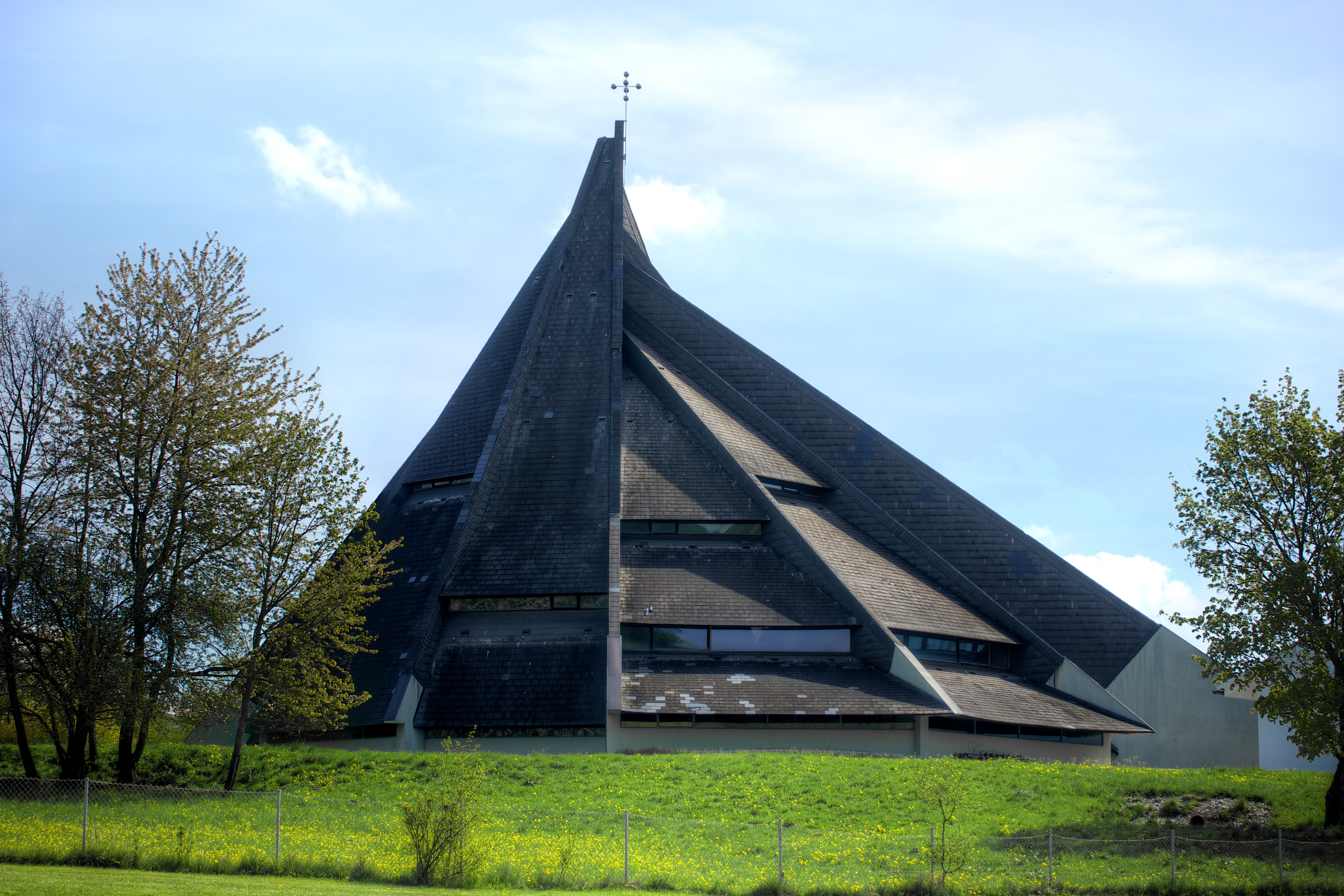 Highway church "Maria am Wege" in Windach, administration district Landsberg am Lech, Bavaria, Germany, as seen from South.